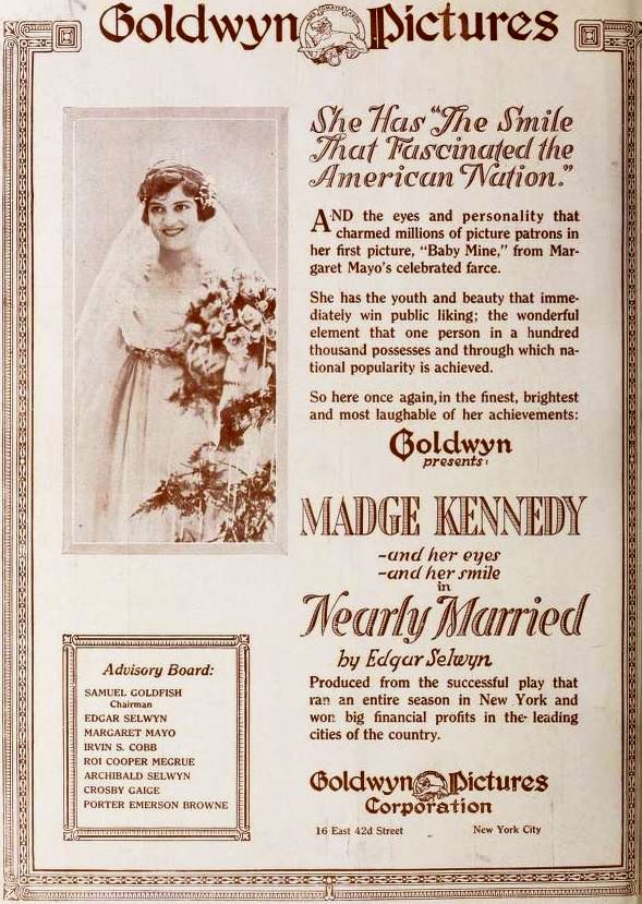 Advertisement for the American comedy film Nearly Married (1917) with Madge Kennedy, on page 2 of the November 17, 1917 Exhibitors Herald.